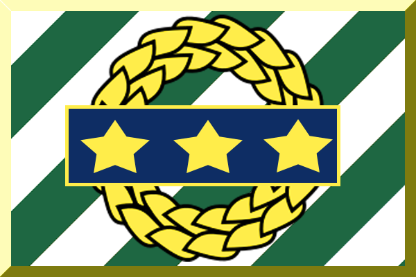 Fantasy football flag for Rapid Vienna team